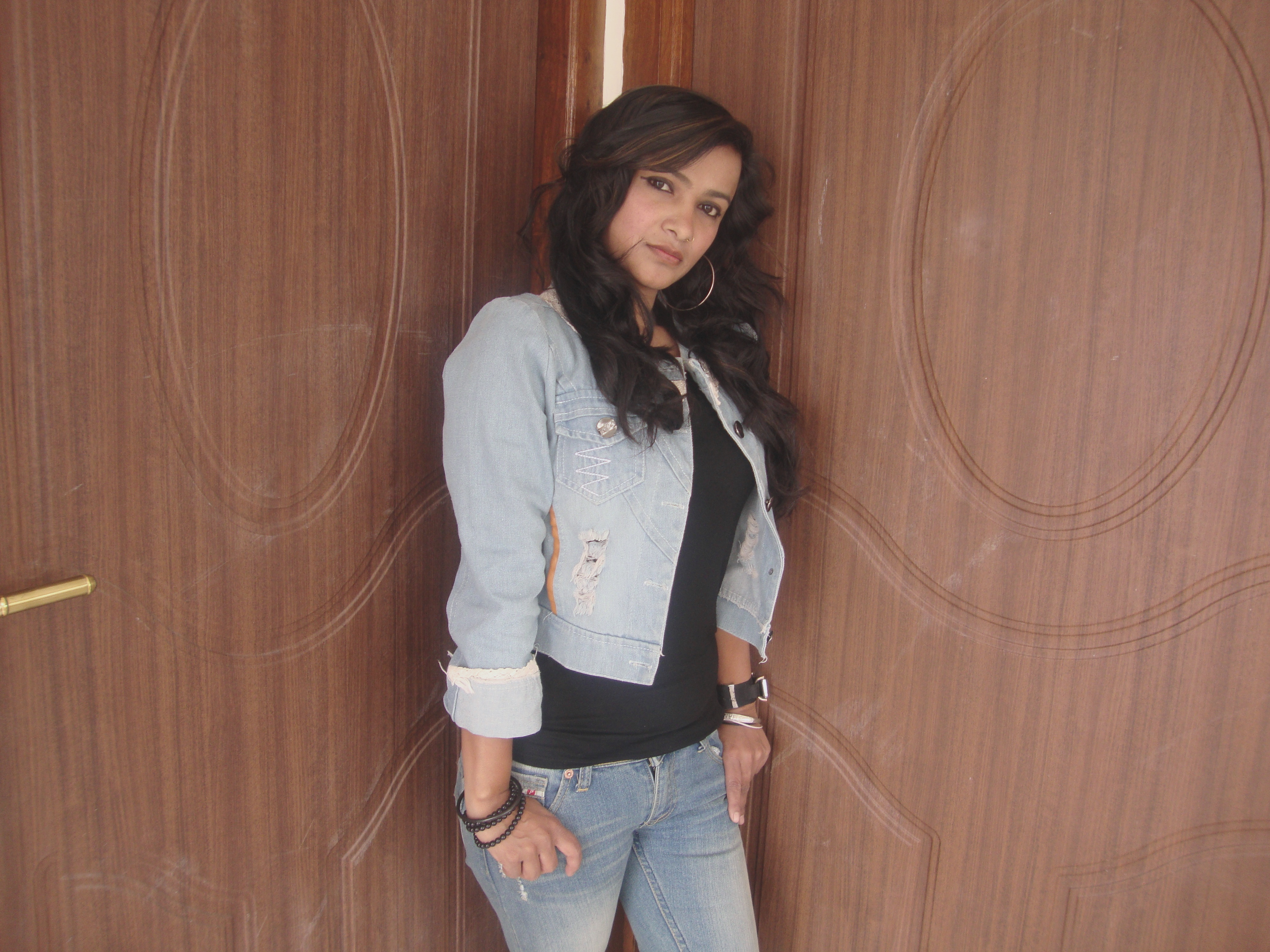 Sashi Rawal is a nepalese singer mostly popular amonst youngsters.